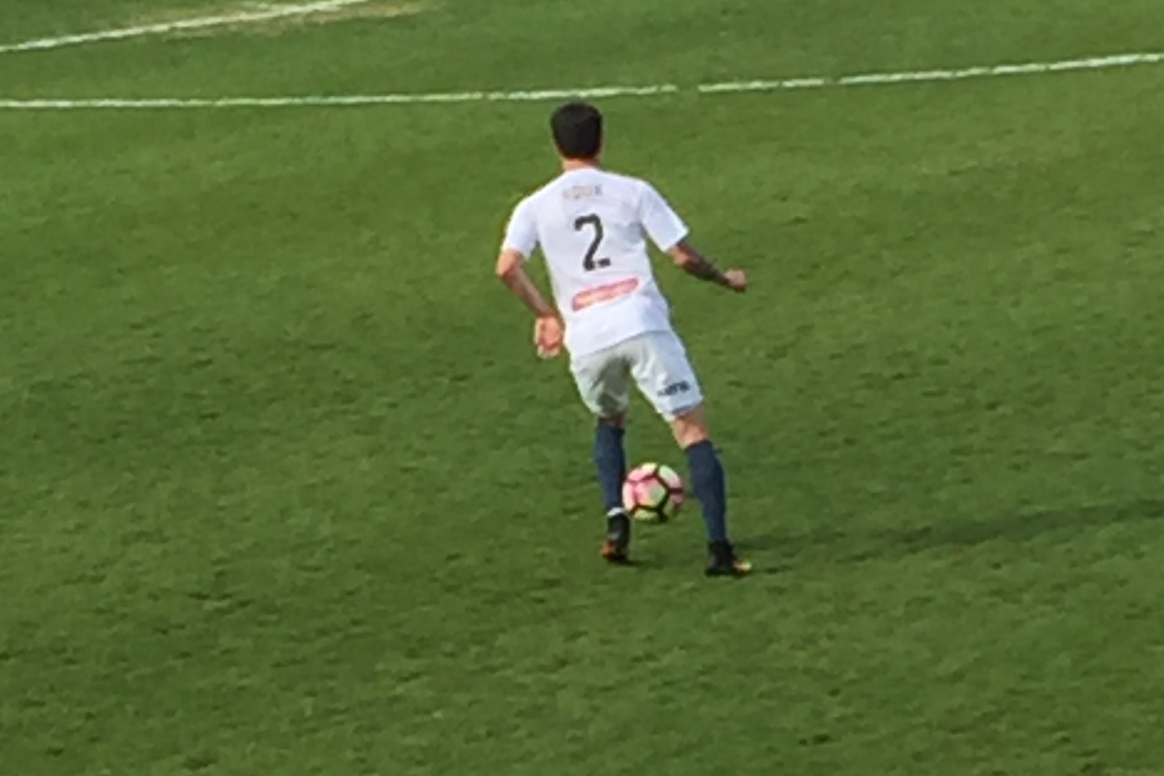 Storm Roux playing for Central Coast Mariners against Wellington Phoenix at Knox Grammar School on 17 September 2016